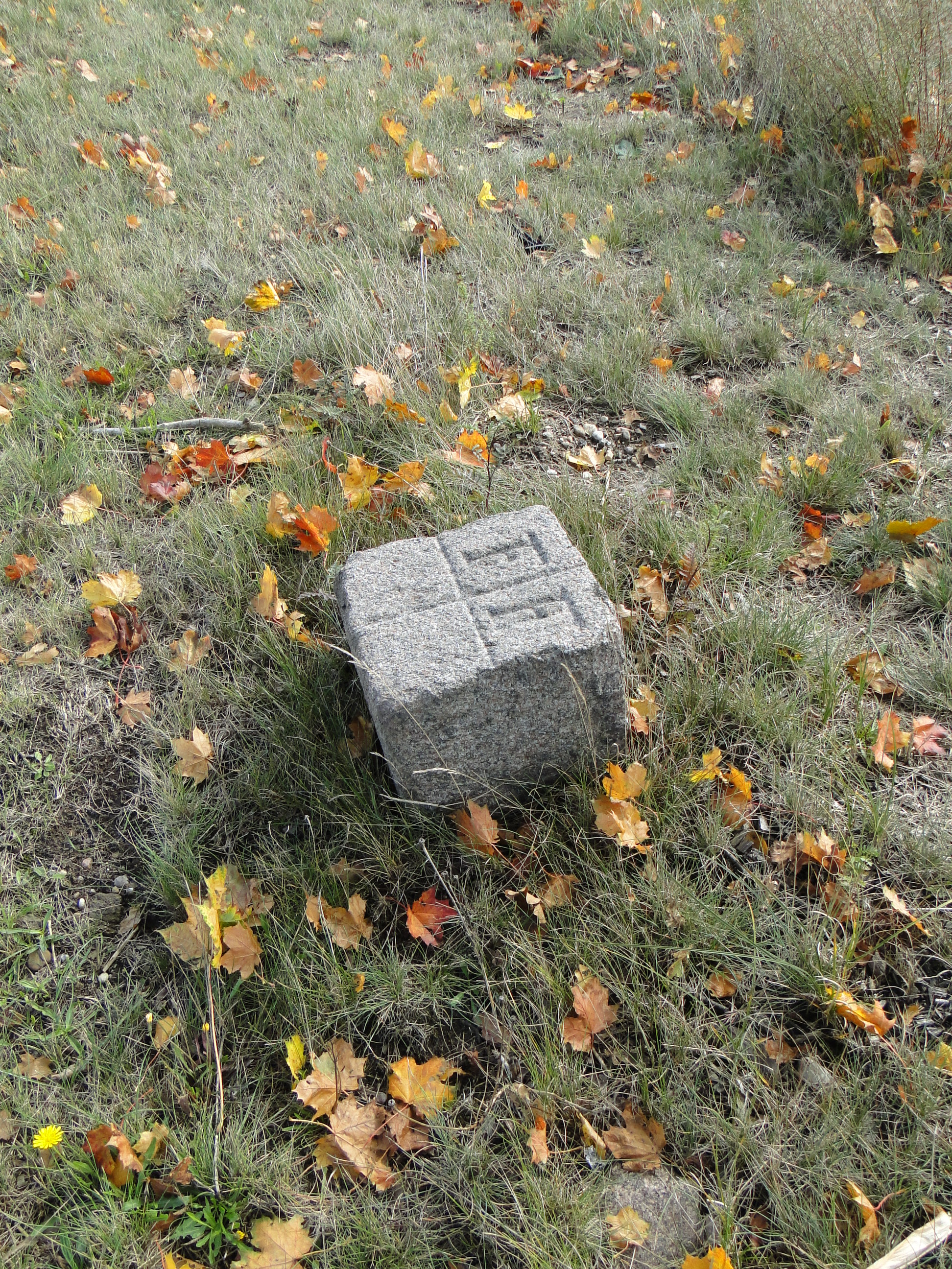 Trig point (FF stone, used from 1877 to 1880) on the Bundesstraße 5 next to the half-mile stone north of Neu Krenzlin, district Ludwigslust-Parchim, Mecklenburg-Vorpommern, Germany